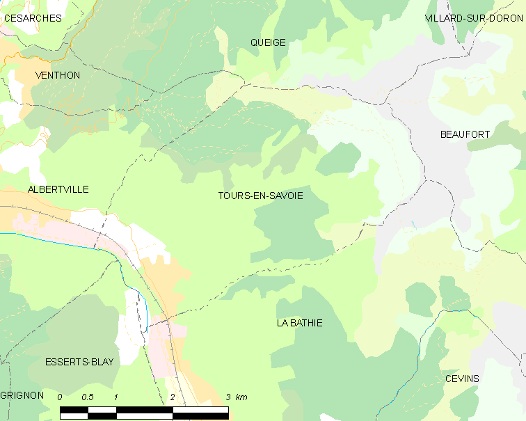 Map of French municipality Tours-en-Savoie